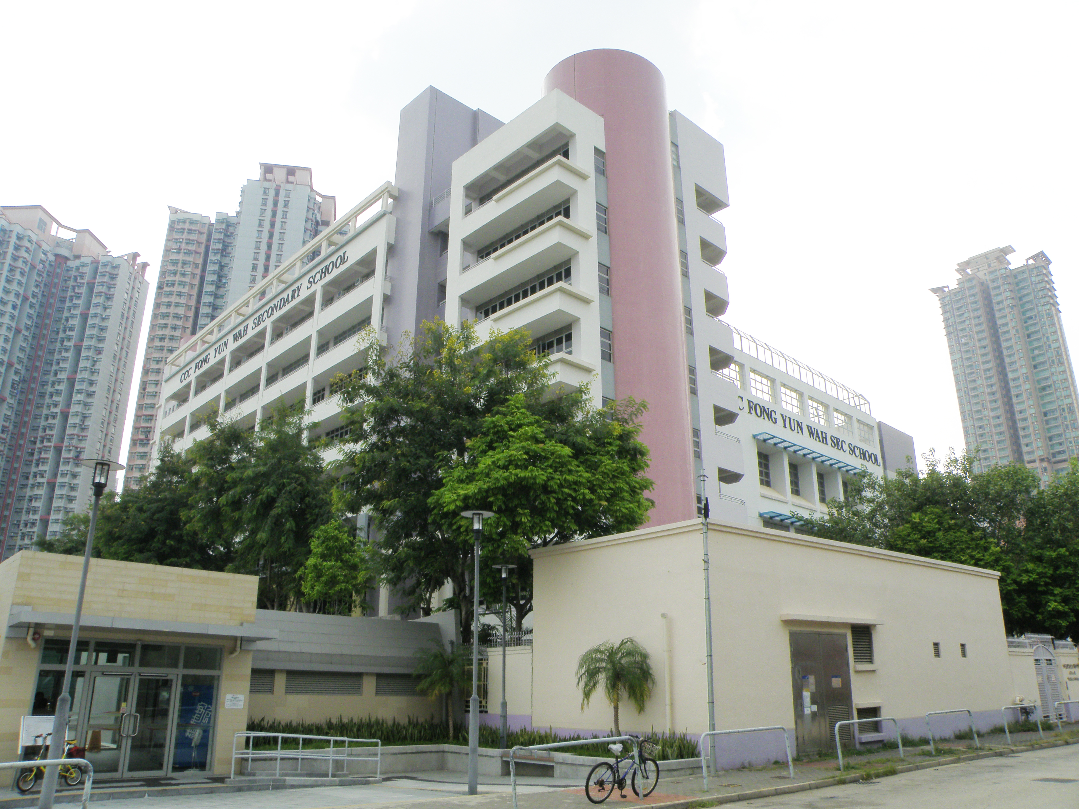 CCC Fong Yun Wah Secondary School in Tin Shui Wai, Hong Kong.